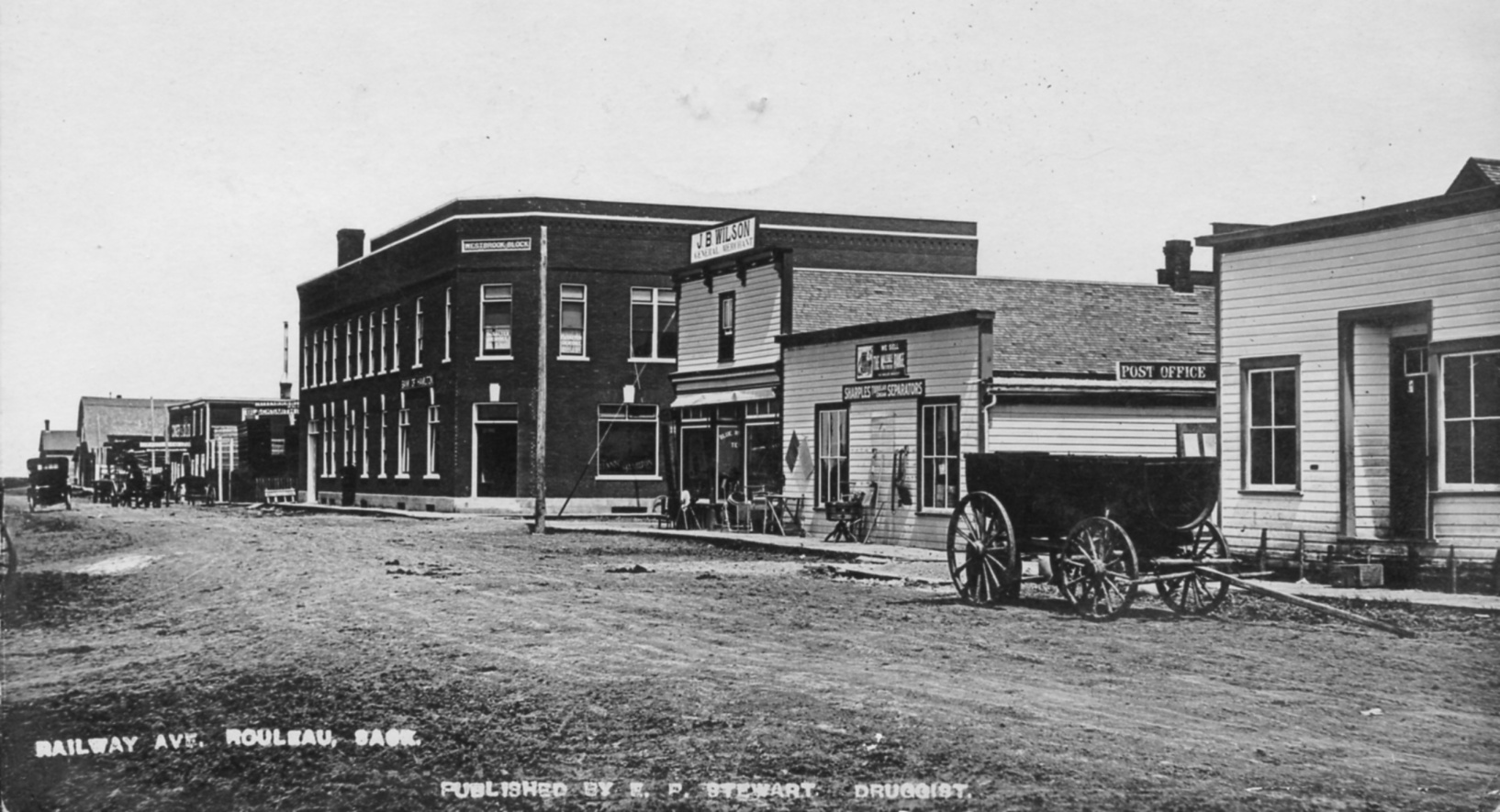 Street view of Railway Avenue in Rouleau, Saskatchewan, Canada, circa 1911